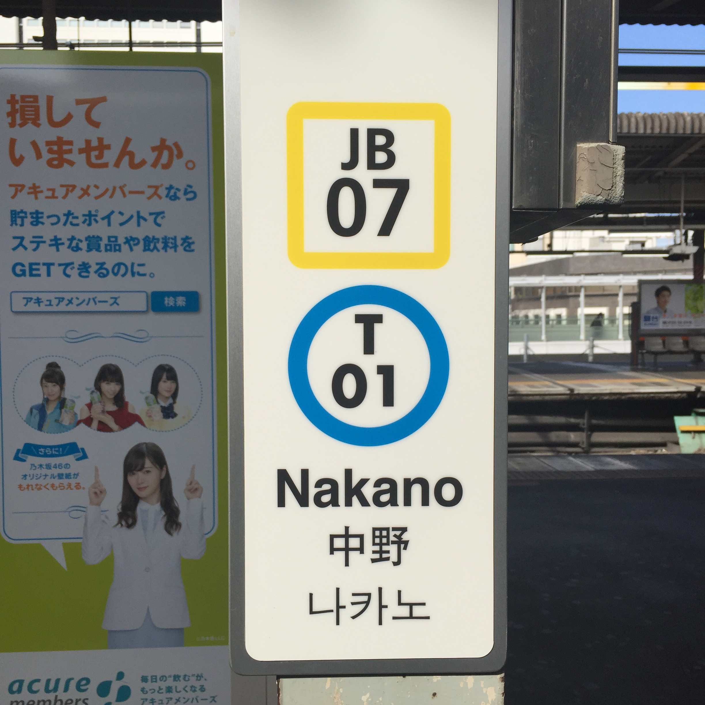 A multilingual station sign at Nakano Station in Tokyo, Japan